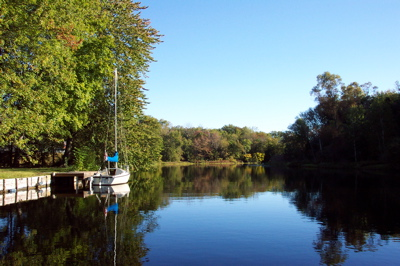 Photo taken by Robert Coller (myself), digital image.